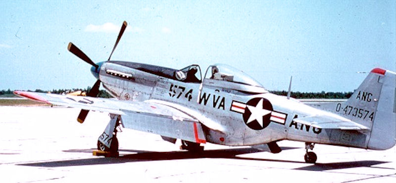 167th Fighter Squadron F-51 44-73574, West Virginia ANG, about 1957. Aircraft was sold into private ownership as N5478V.